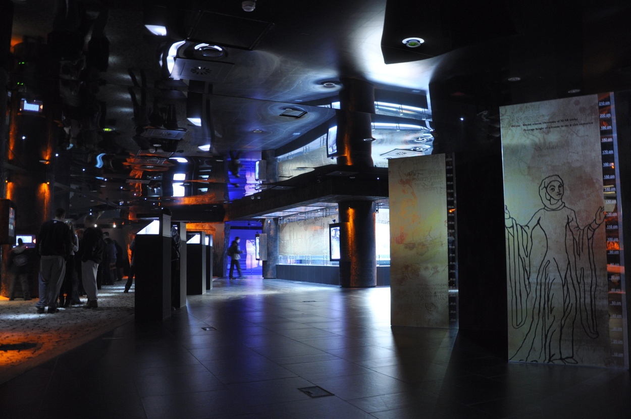 "Rynek Underground" - the subterranean museum in Kraków, Poland